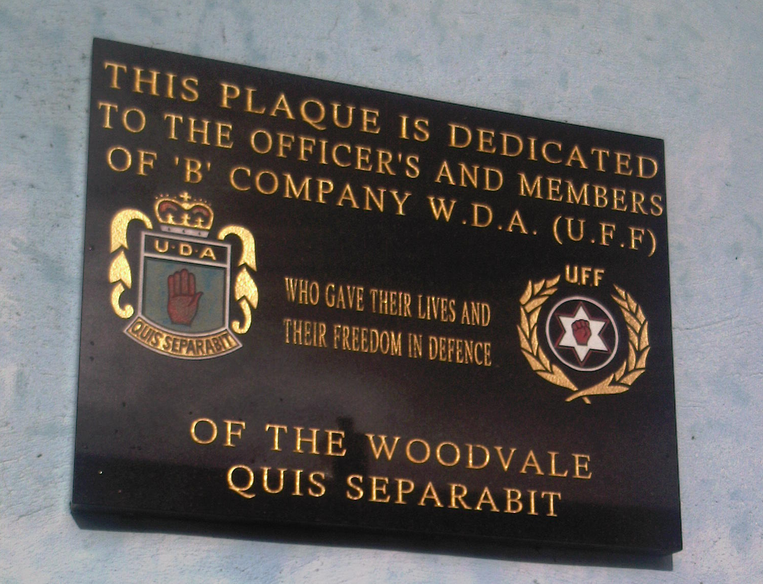 Plaque commemorating the Woodvale Defence Association, Ohio Street, Belfast